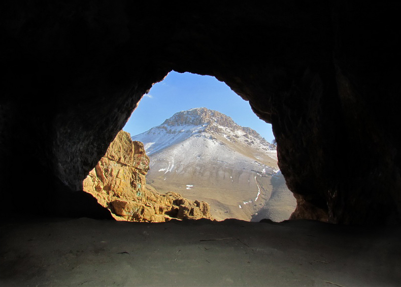 Hampoil cave entrance from inner angle